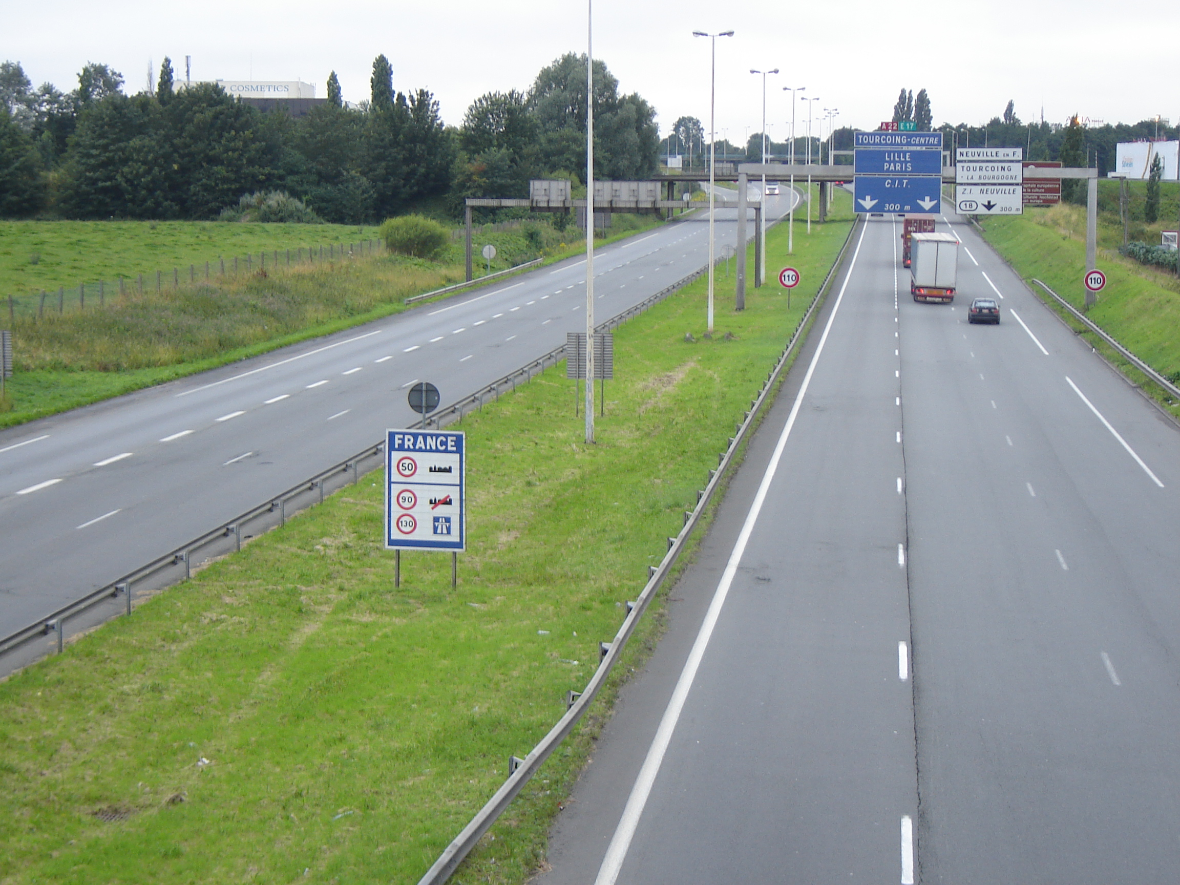 French autoroute A22/E17 in Neuville-en-Ferrain, just after crossing the Belgian border. Neuville-en-Ferrain, Nord, Nord-Pas-de-Calais, France.